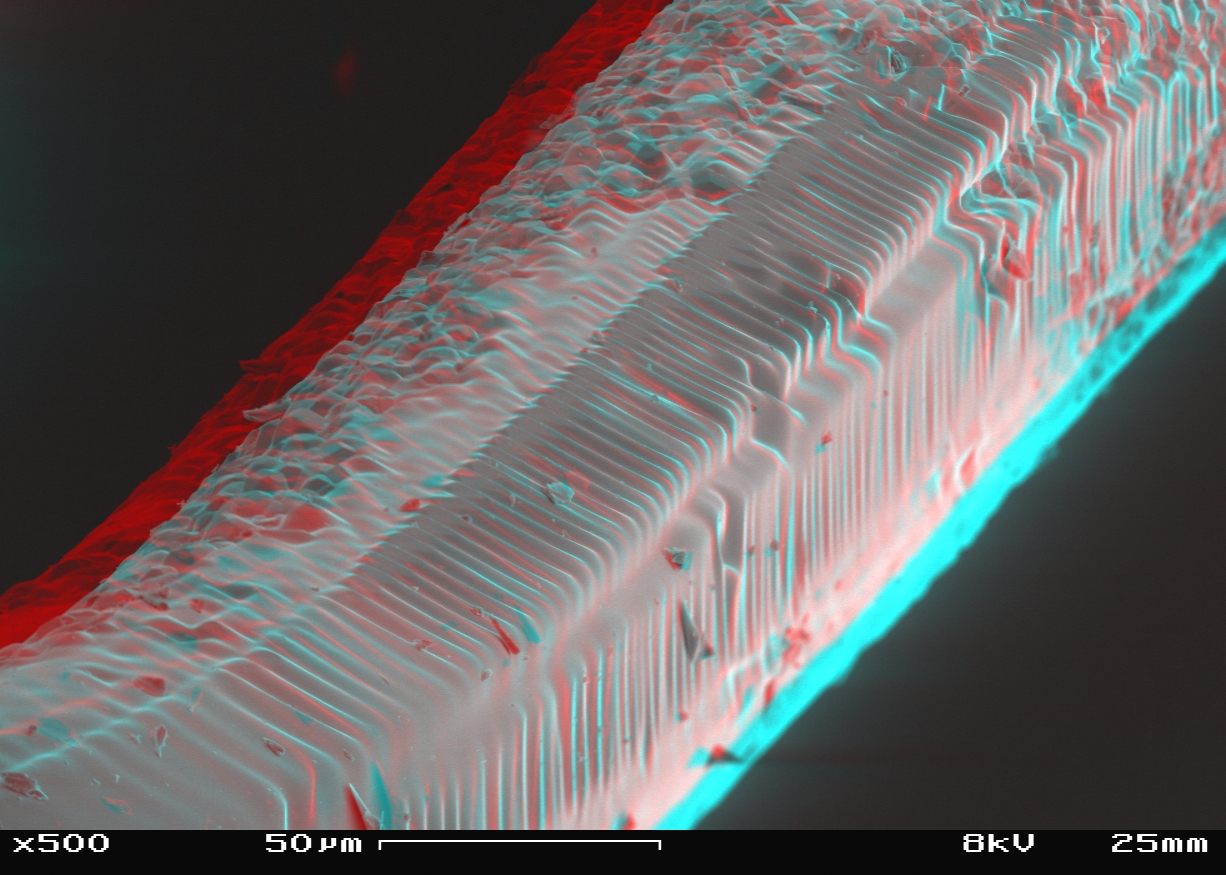 This is a stereoscopic SEM (scanning electron microscope) view of a fused electrical filament made of tungsten. Magnification 500x (relative to medium format film).